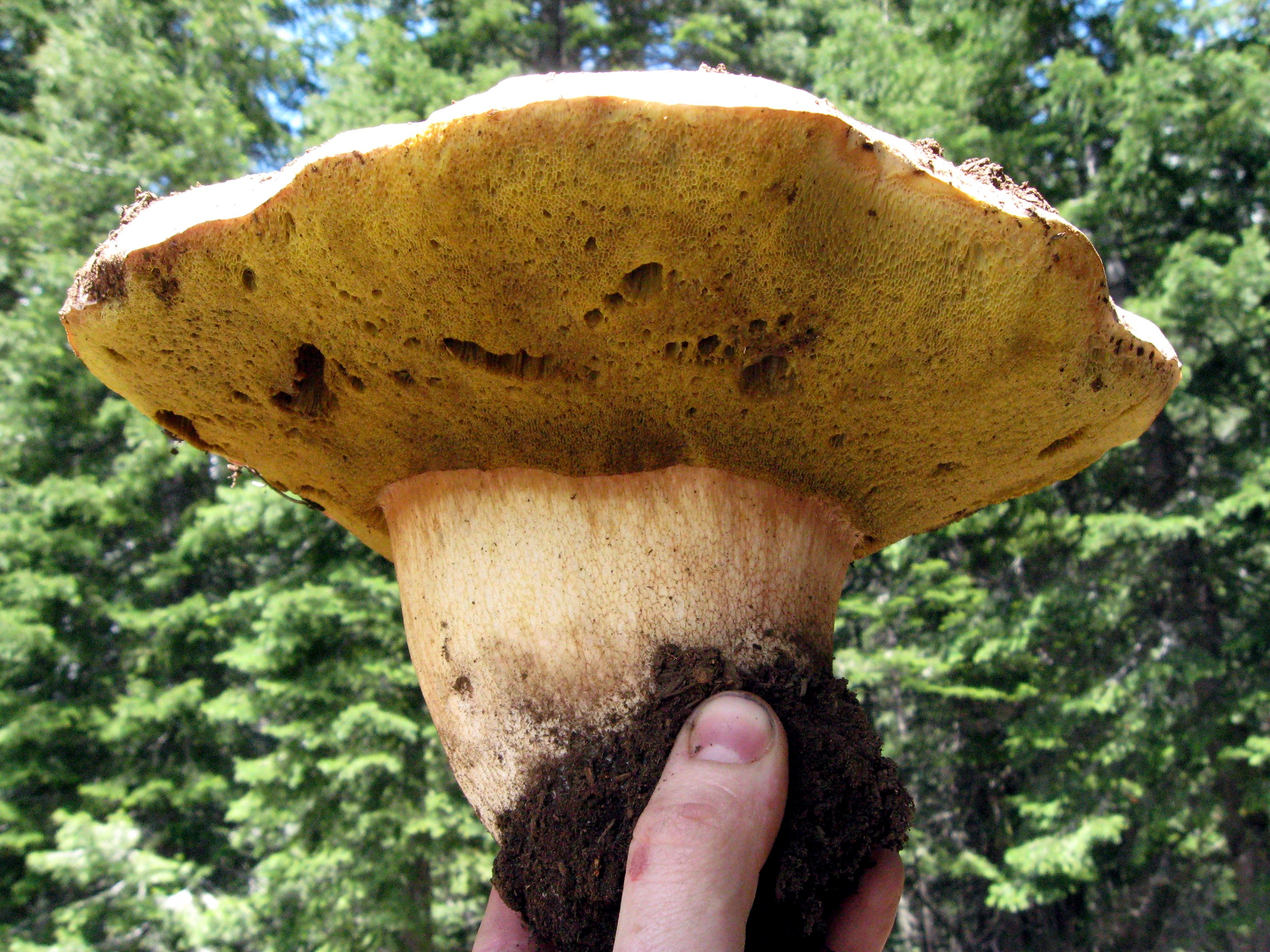 Boletus rex-veris. Photo by Alan Rockefeller, 6/14/09. Near medicine lake, shasta-trinity national forest, CA. Summary Boletus rex-veris. Photo by Alan Rockefeller, 6/14/09. Near medicine lake, shasta-trinity national forest, CA.